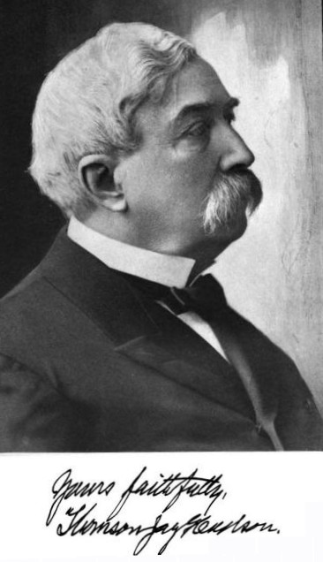 Photograph of Thomson Jay Hudson (1834 - 1903), the author, spiritualist, and patent official.